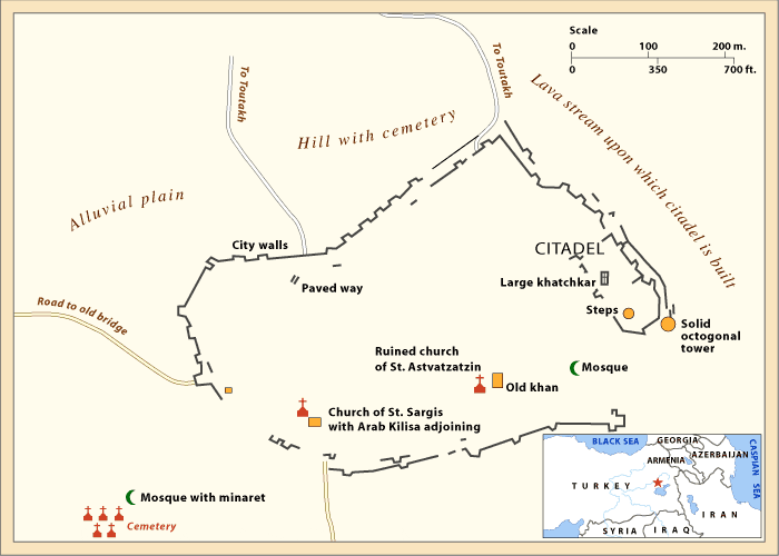 The city of Manazkert